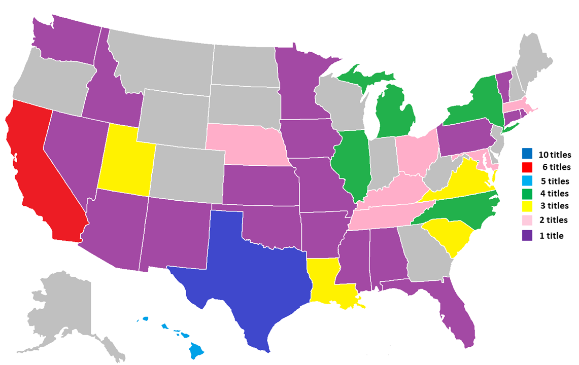 Miss USA title holders by state.